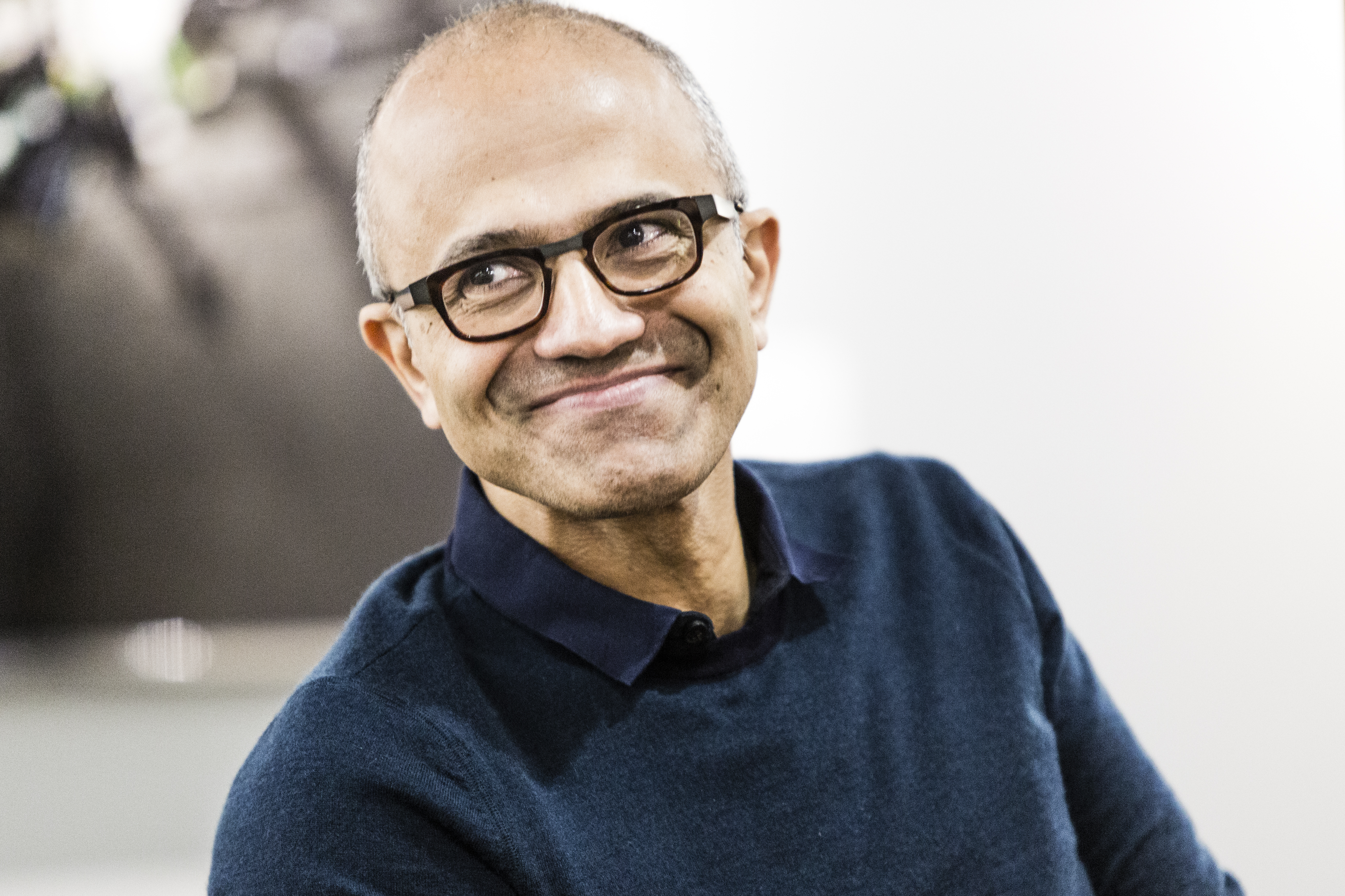 Microsoft CEO Satya Nadella smiling.